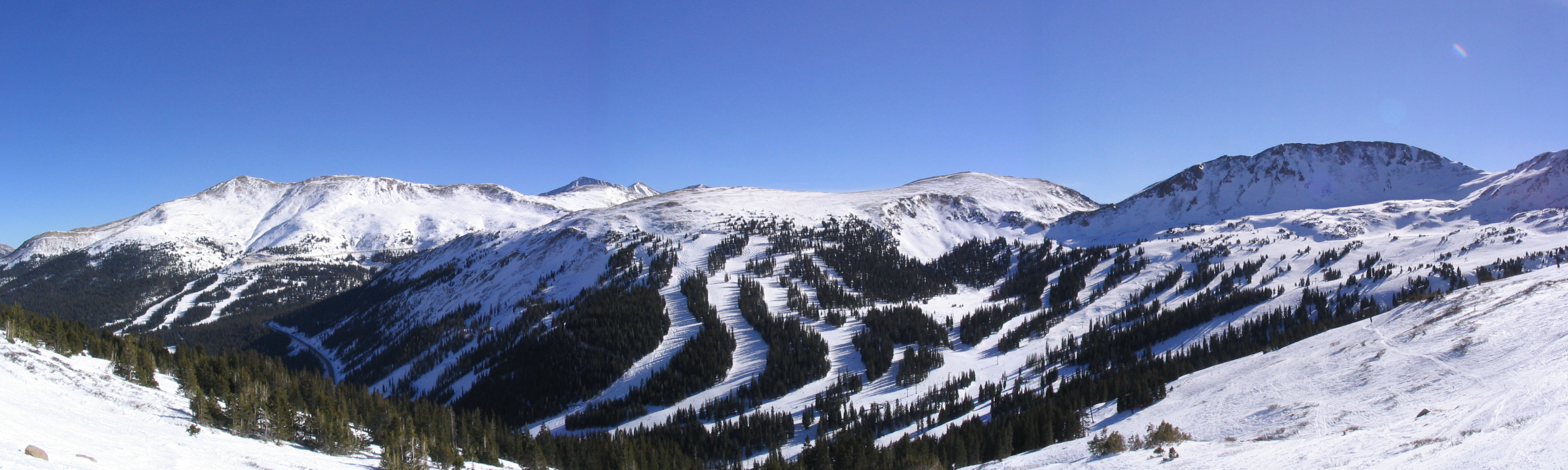 View of Loveland Ski Area from above the Eisenhower Tunnel. Image taken by DebateLord on November 24, 2005.